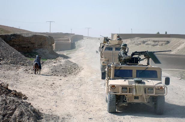 070414-A-9834L-020 SANGIN, Afghanistan - U.S. Special Operations Soldiers conduct a vehicle mounted combat patrol in search of Taliban fighters near the Sangin city district center in Helmand Province April 14. (U.S. Army Photo by Spc. Daniel Love)